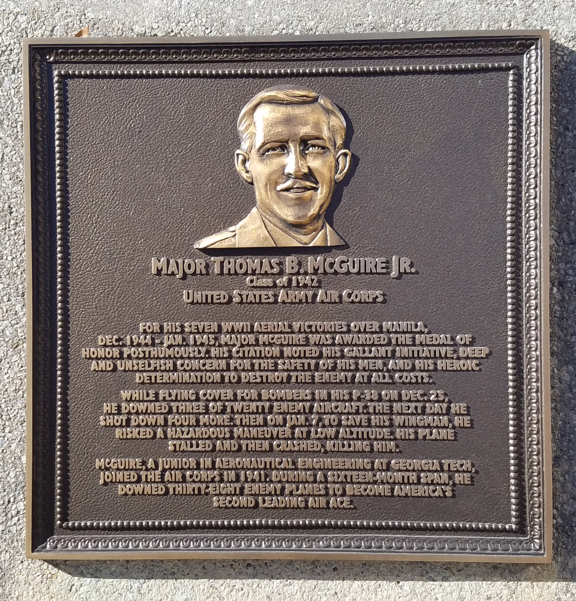 Plaque for Thomas B. McGuire at the Wardlaw Center at Georgia Tech.